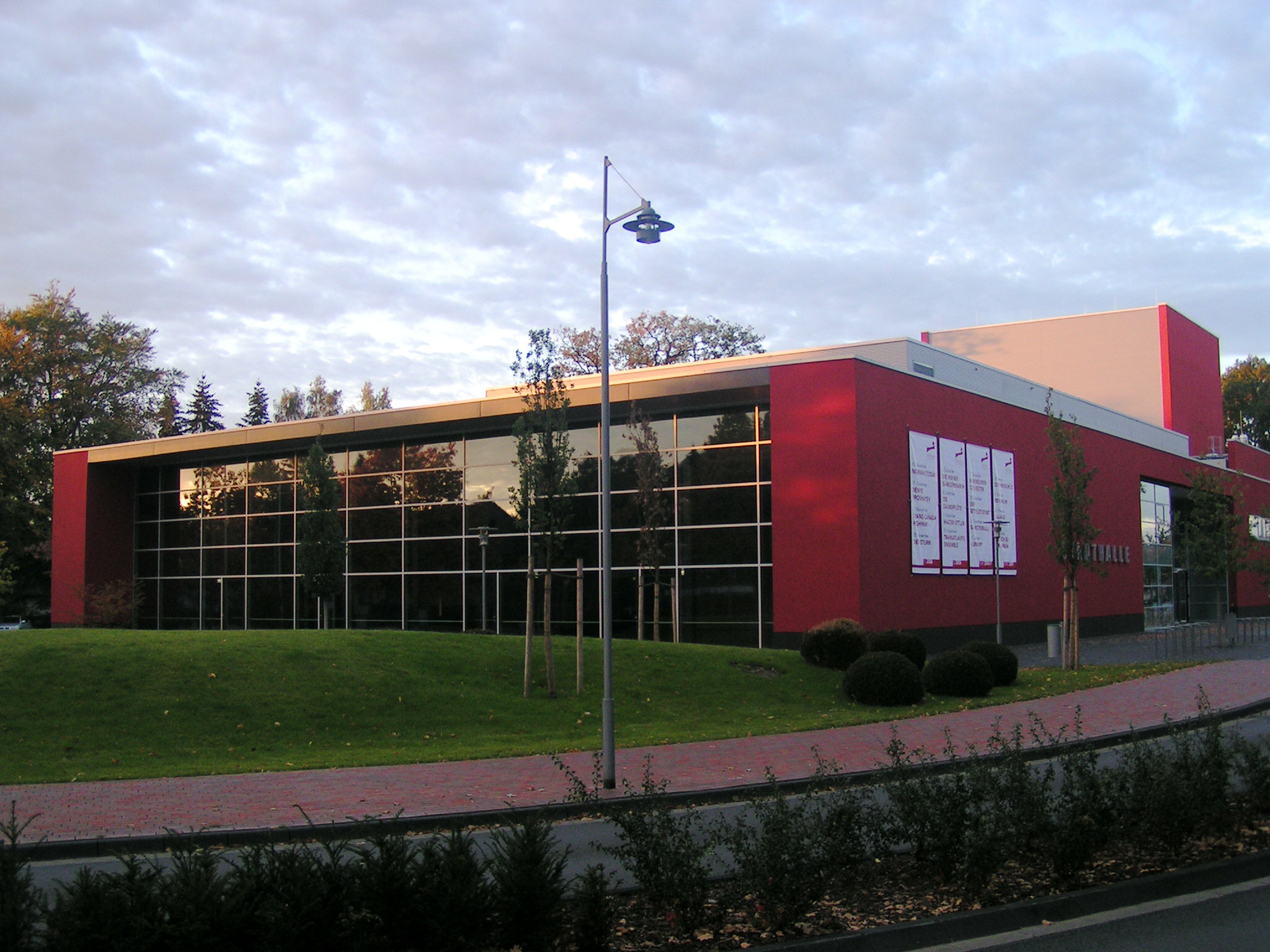 Stadthalle Gifhorn, Germany